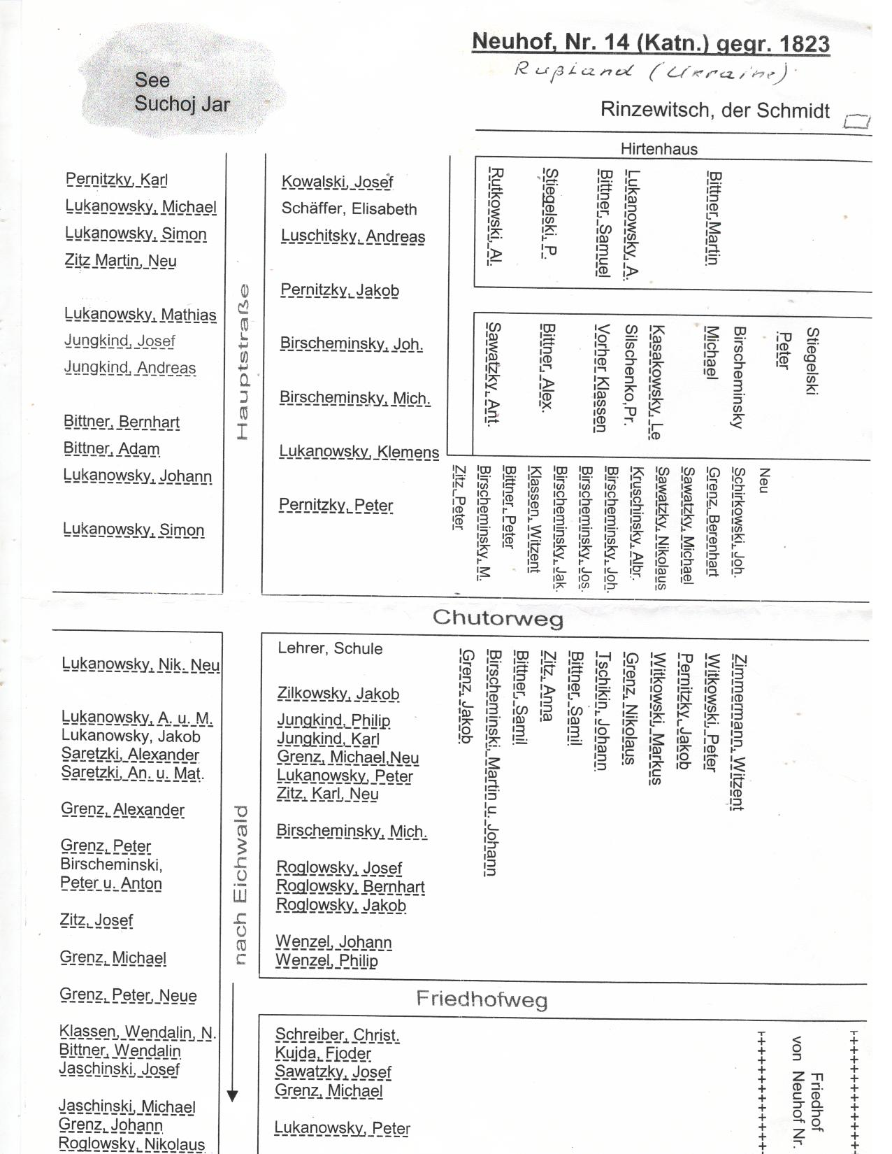 Map of Neuhof (Russian Empire - 1823)